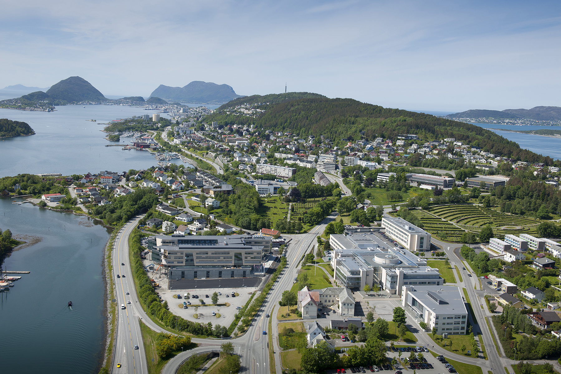 The Norwegian University of Science and Technology (NTNU). The Ålesund campus